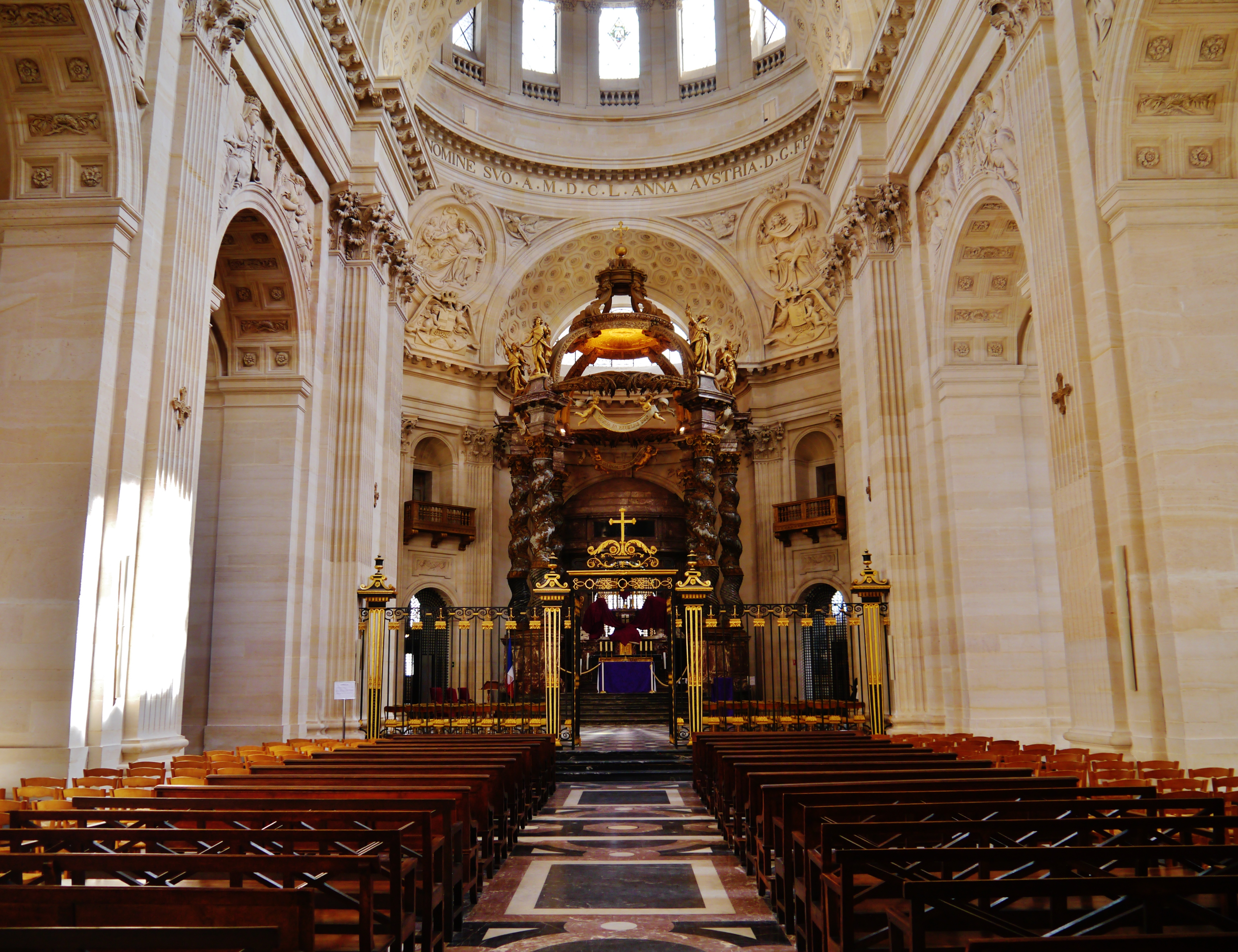 Nave of the Church of Val-de-Grâce, Paris, Region of Île-de-France, France